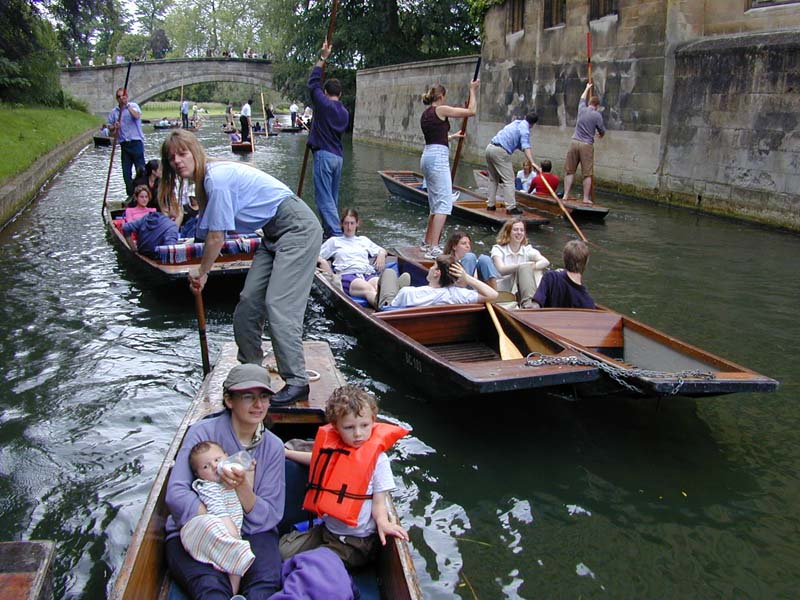 Punting in a crowd, on the River Cam. For a more idyllic scene, see File:Punting on the River Cam.jpg. Taken in June 2002 by William M. Connolley.